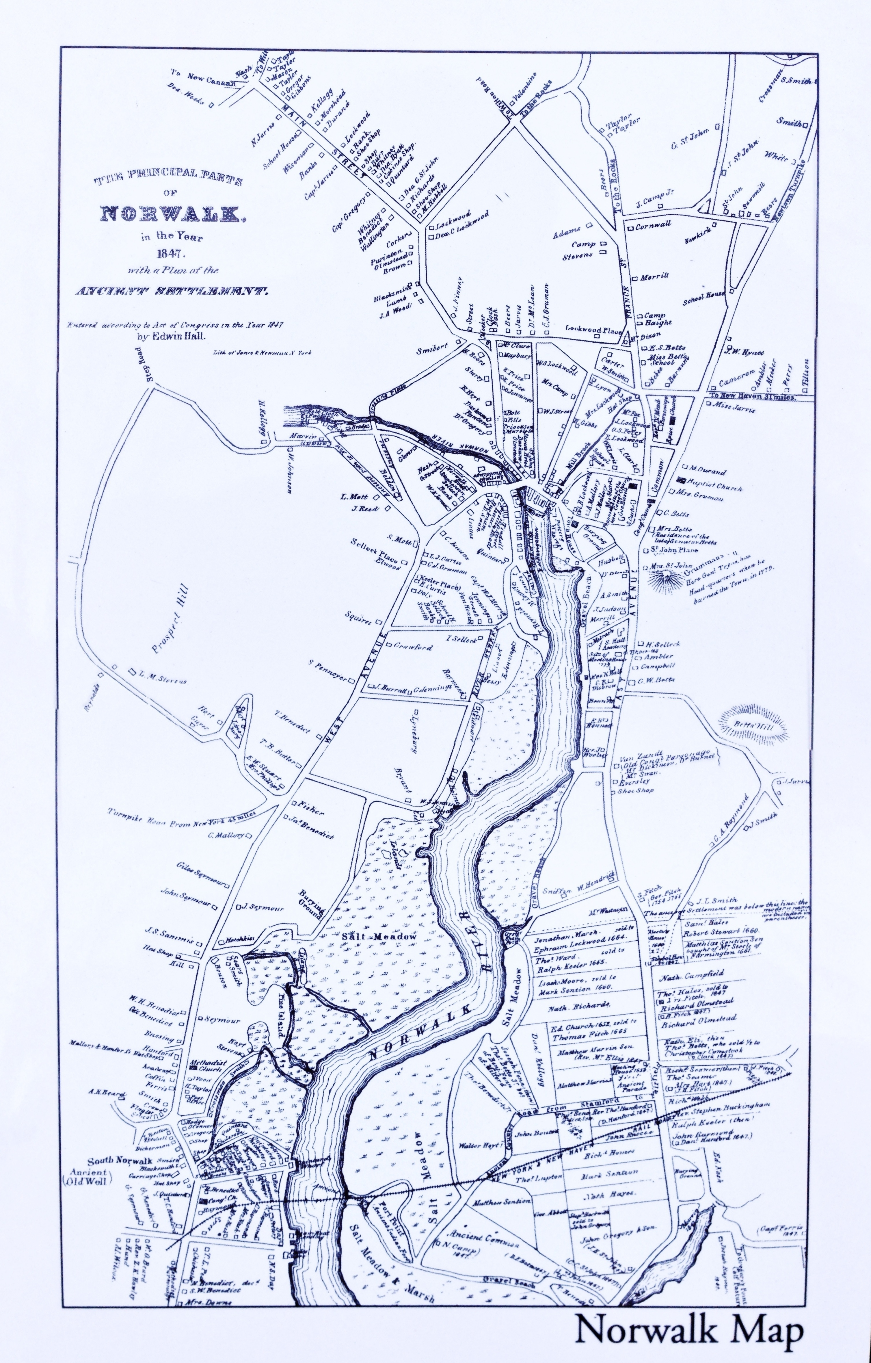 Norwalk 1847 Map, CT, 06854, USA. Title: The Principal Parts of Norwalk, in the Year 1847, with a Plan of the Ancient Settlement. Entered according to Act of Congress in the Year 1847 by Edwin Hall.